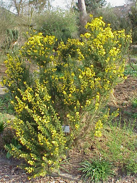 Species: Ulex europaeus Family: Fabaceae Image No. 7